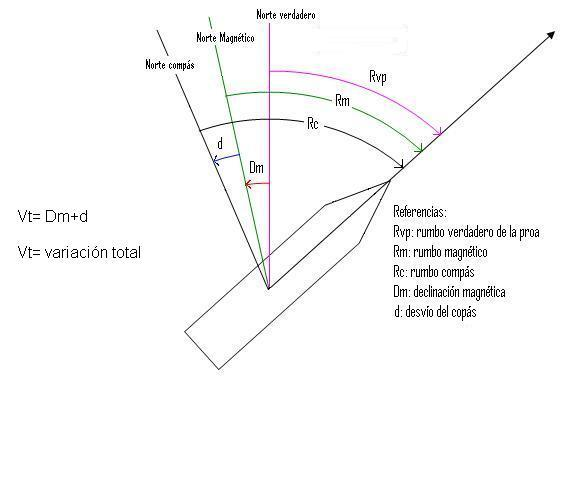 Course graphic scheme